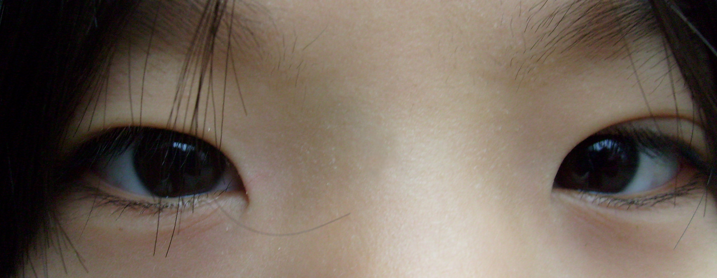 Typical epicanthic fold on a Korean boy